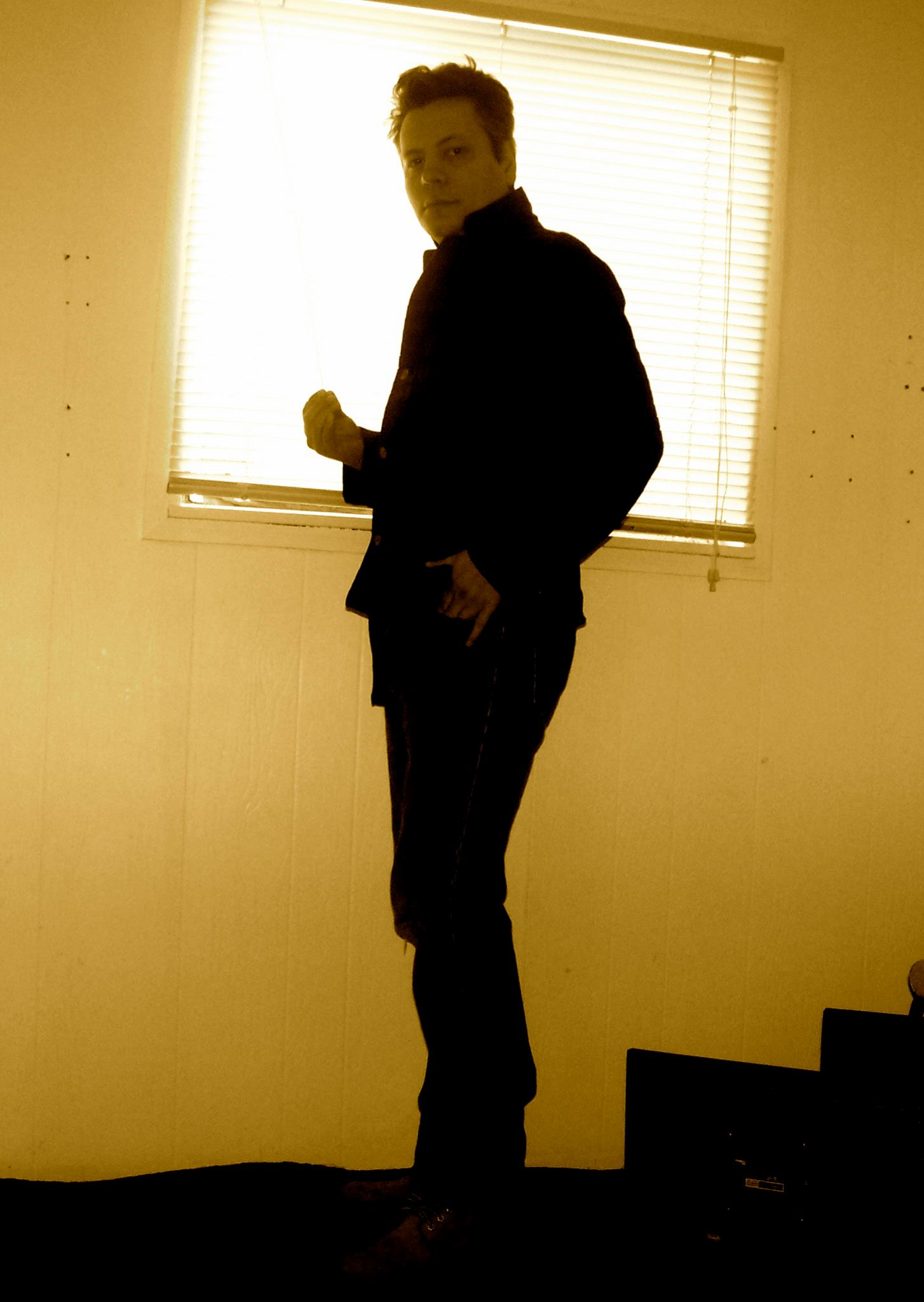 Eric Matthews, from his home Jan 12, 2012